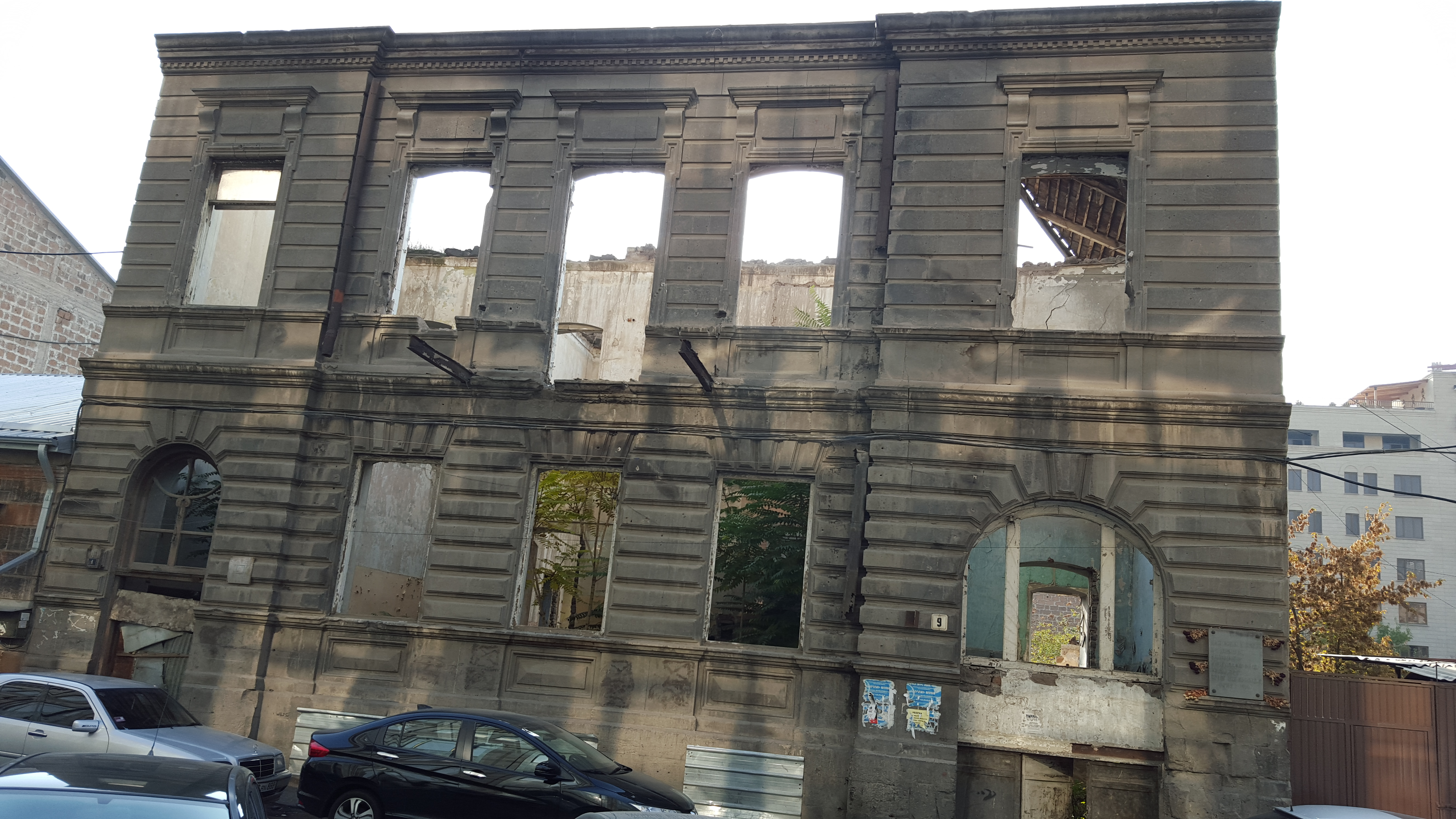 Aram Manukian's house in Yerevan, where he lived between 1917 and 1919